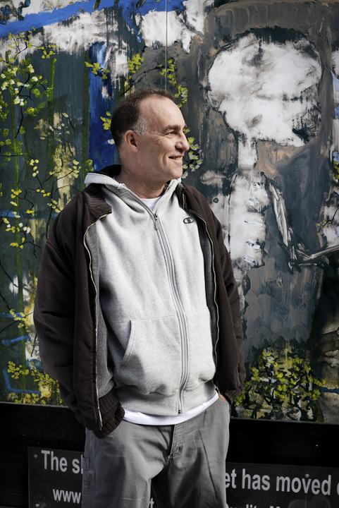 Photo of John Lurie by Ray Henders